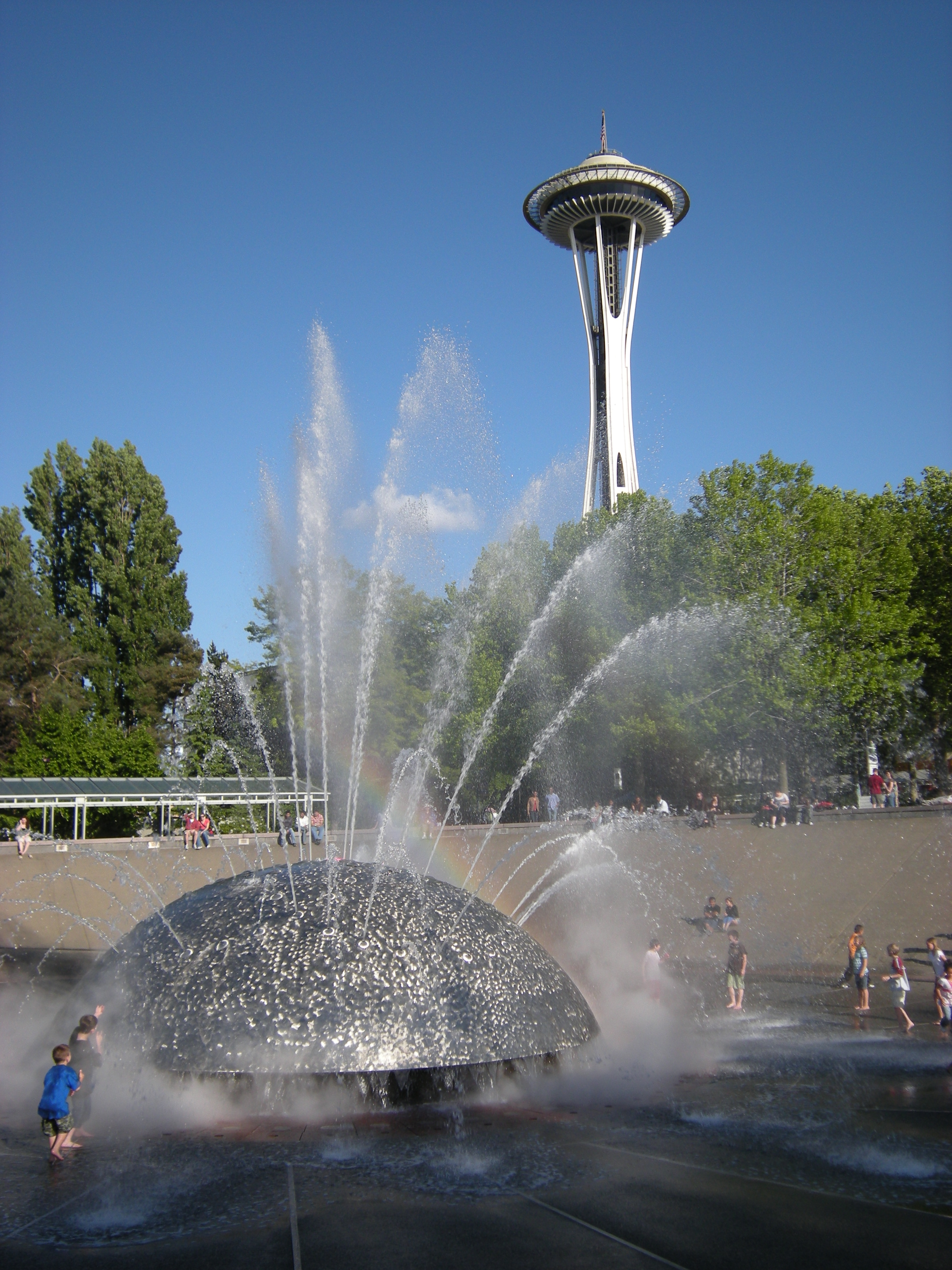 International Fountain and Space Needle, Seattle, Washington.